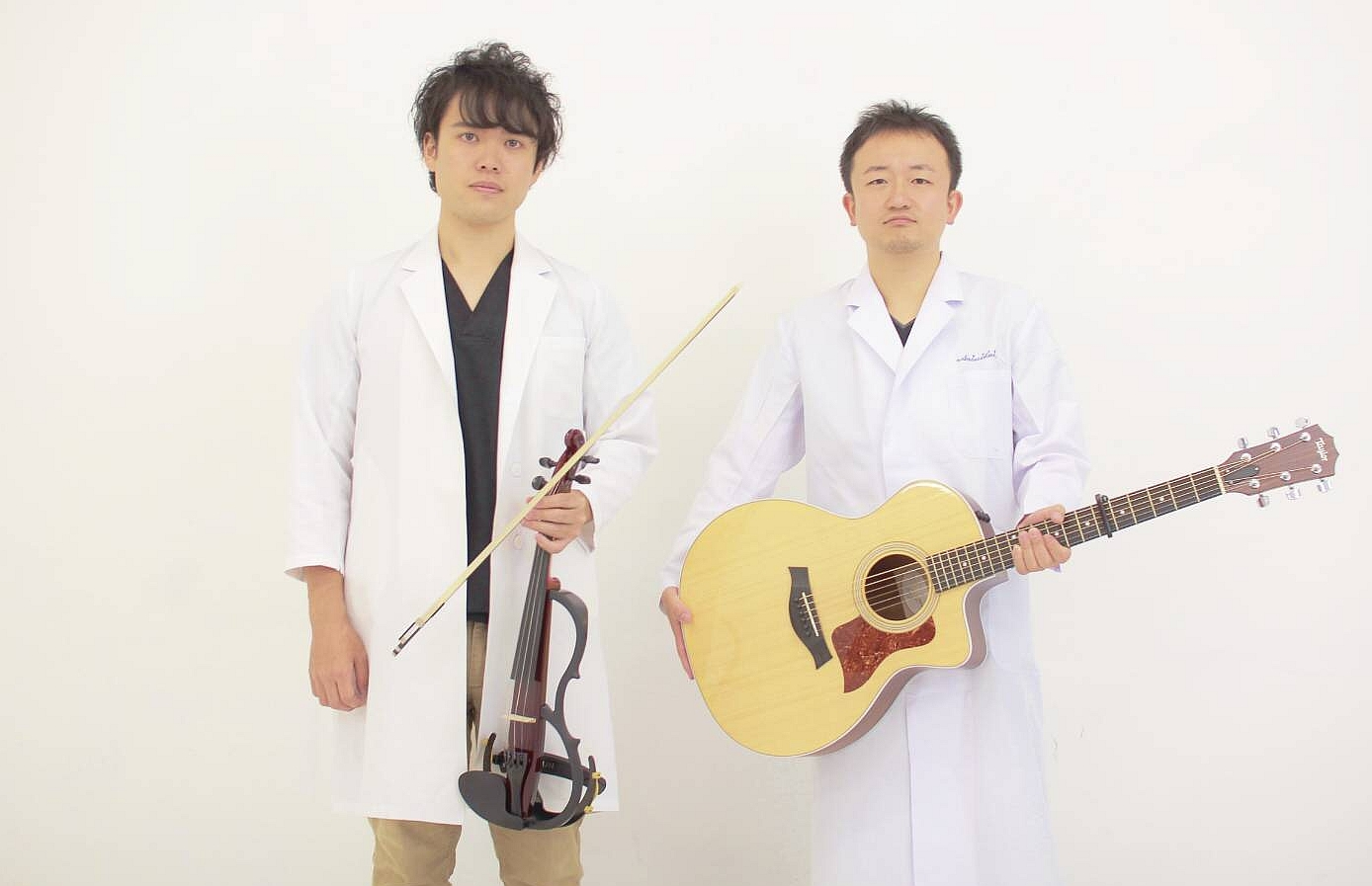 Insheart represents a desire to find a way "inside your heart".